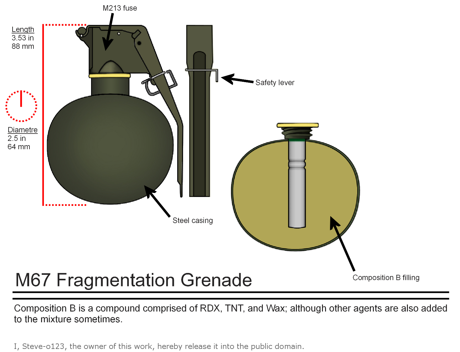 A diagram of the M67 fragmentation grenade.